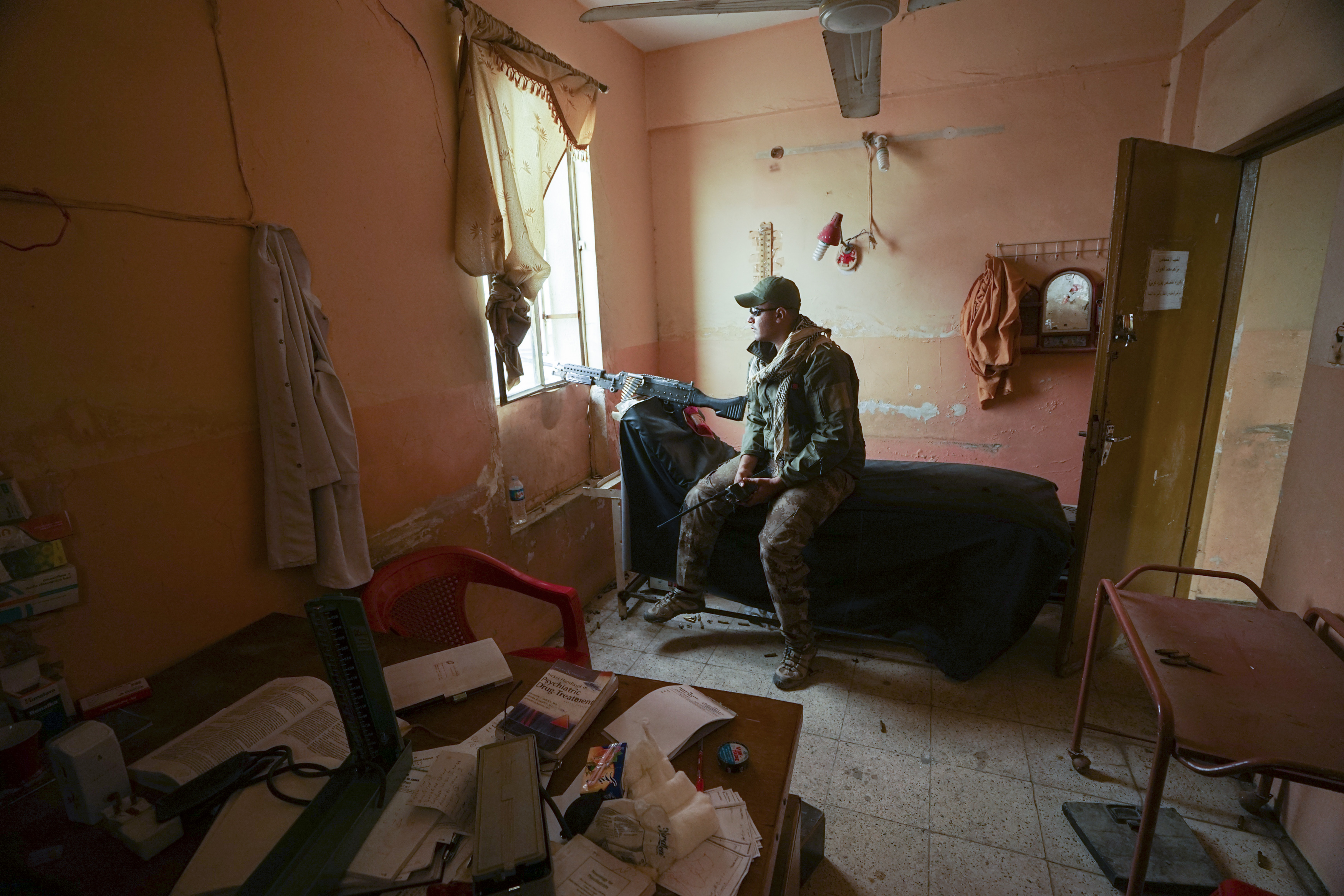 ISOF soldier captured in Mosul, Northern Iraq, Western Asia. 15 November, 2016.